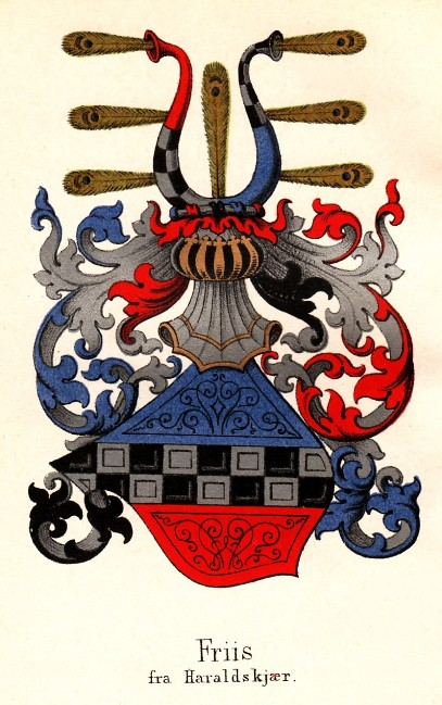 Coat of arms of the Friis of Haraldkær family